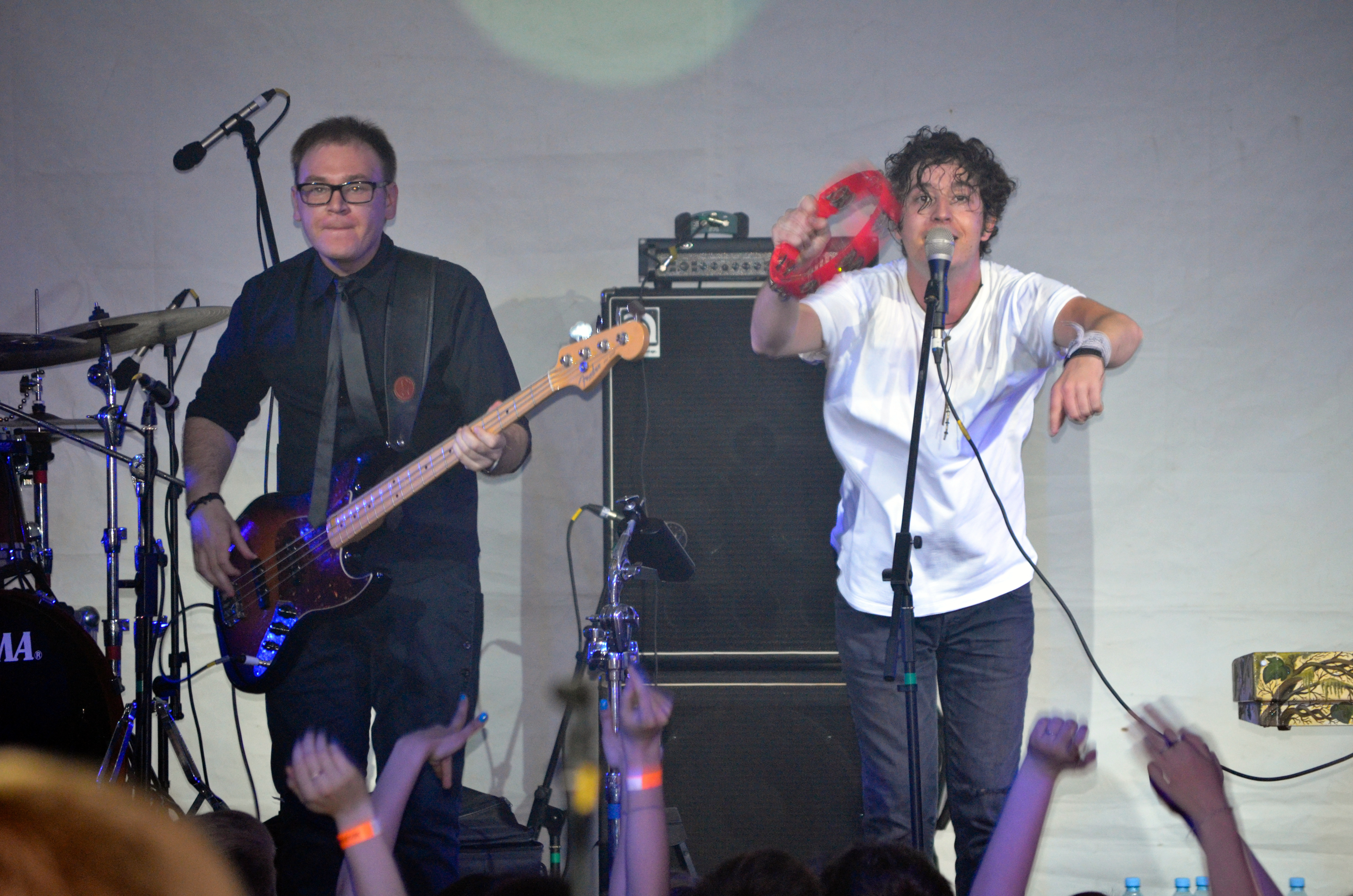 Pianoboy in the Green Theatre